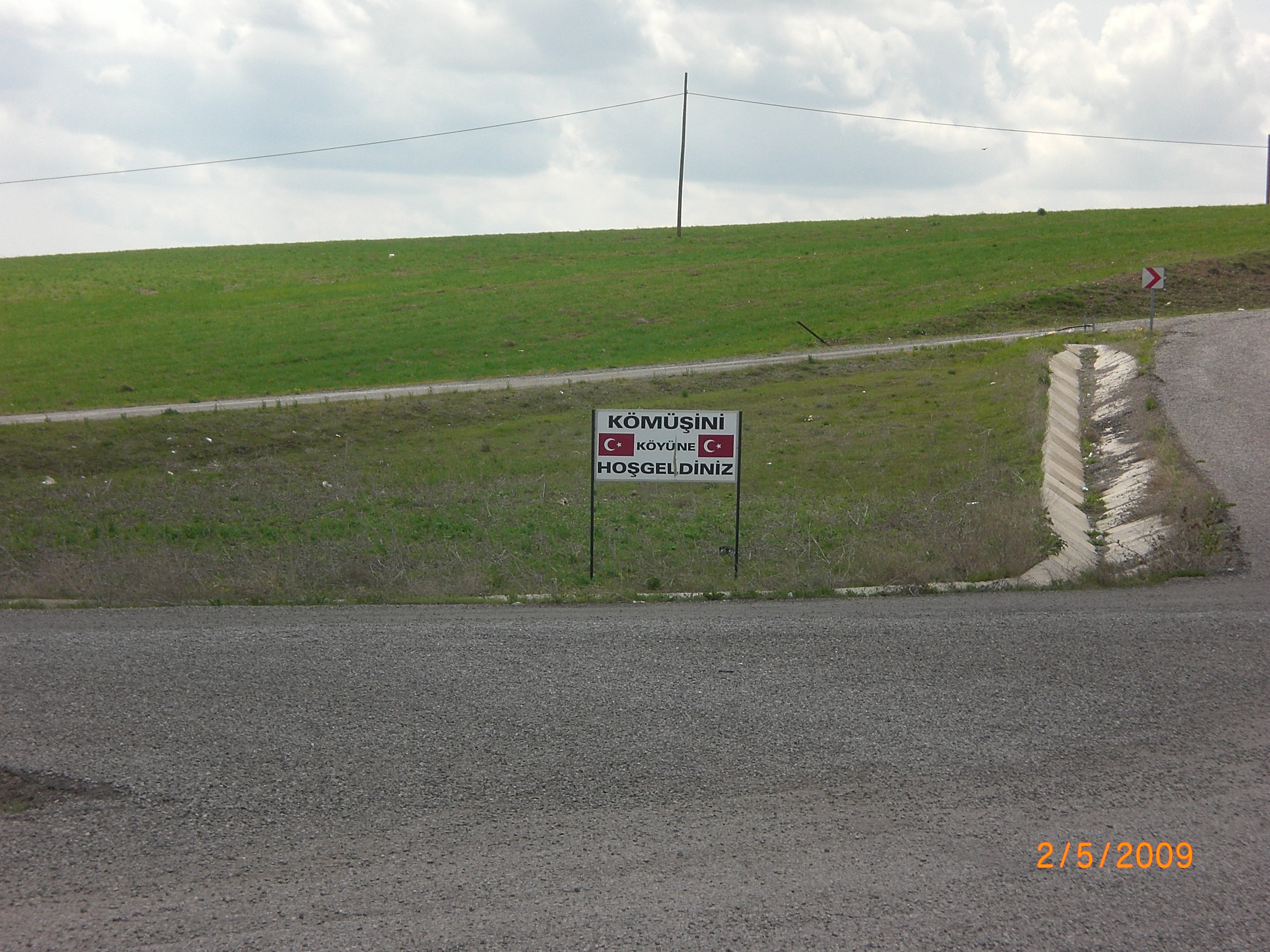 Salih Canpınar's impression of the Kömüşini village